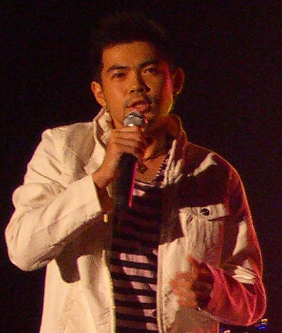 No Name at Taiwan Shin Hsin University 50th anniversary celebrations concert 余憲忠 於台灣世新大學50周年校慶演唱會上